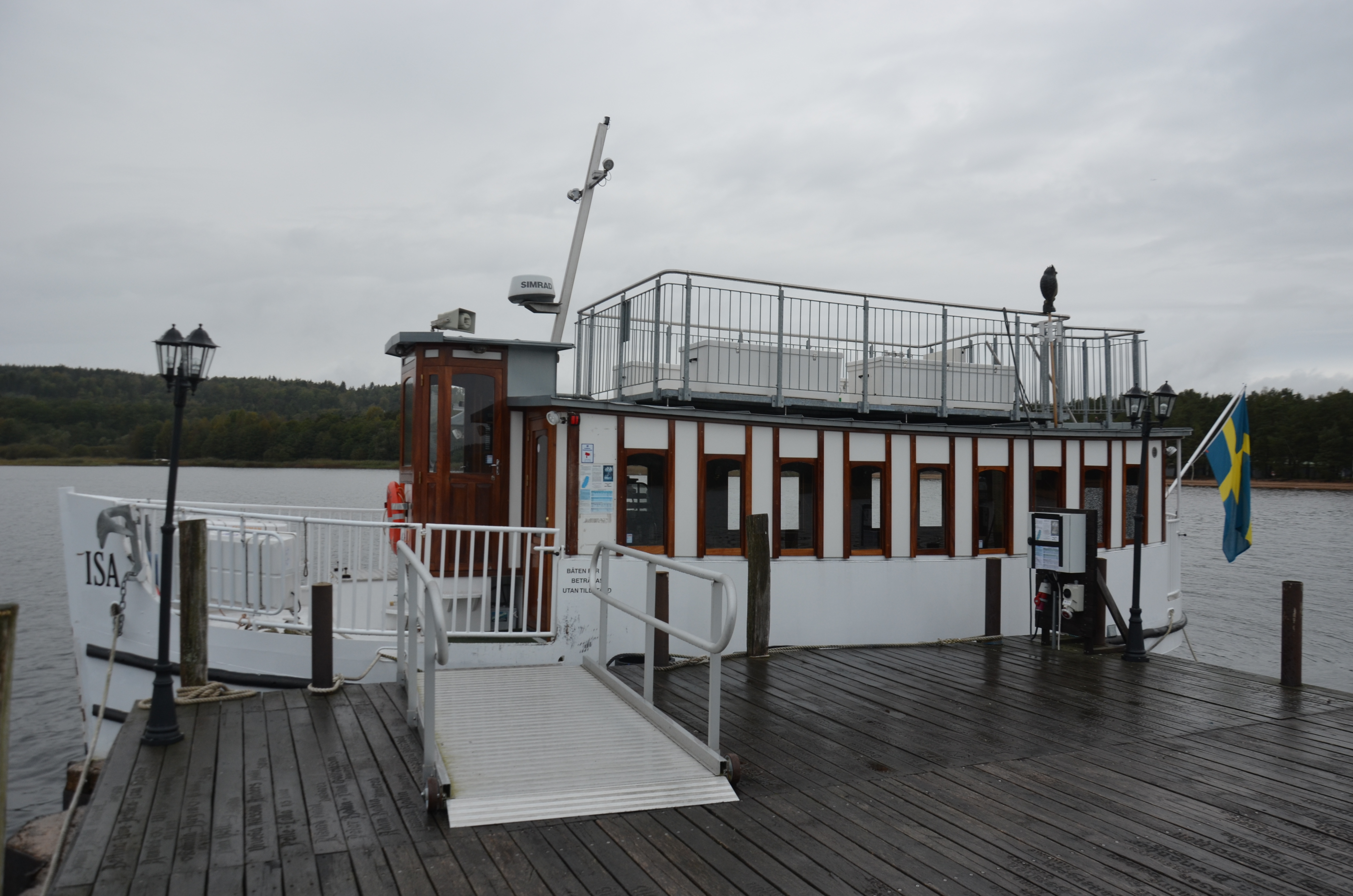 Passenger boat Isa af Lygnern, trafficking lake Lygnern.